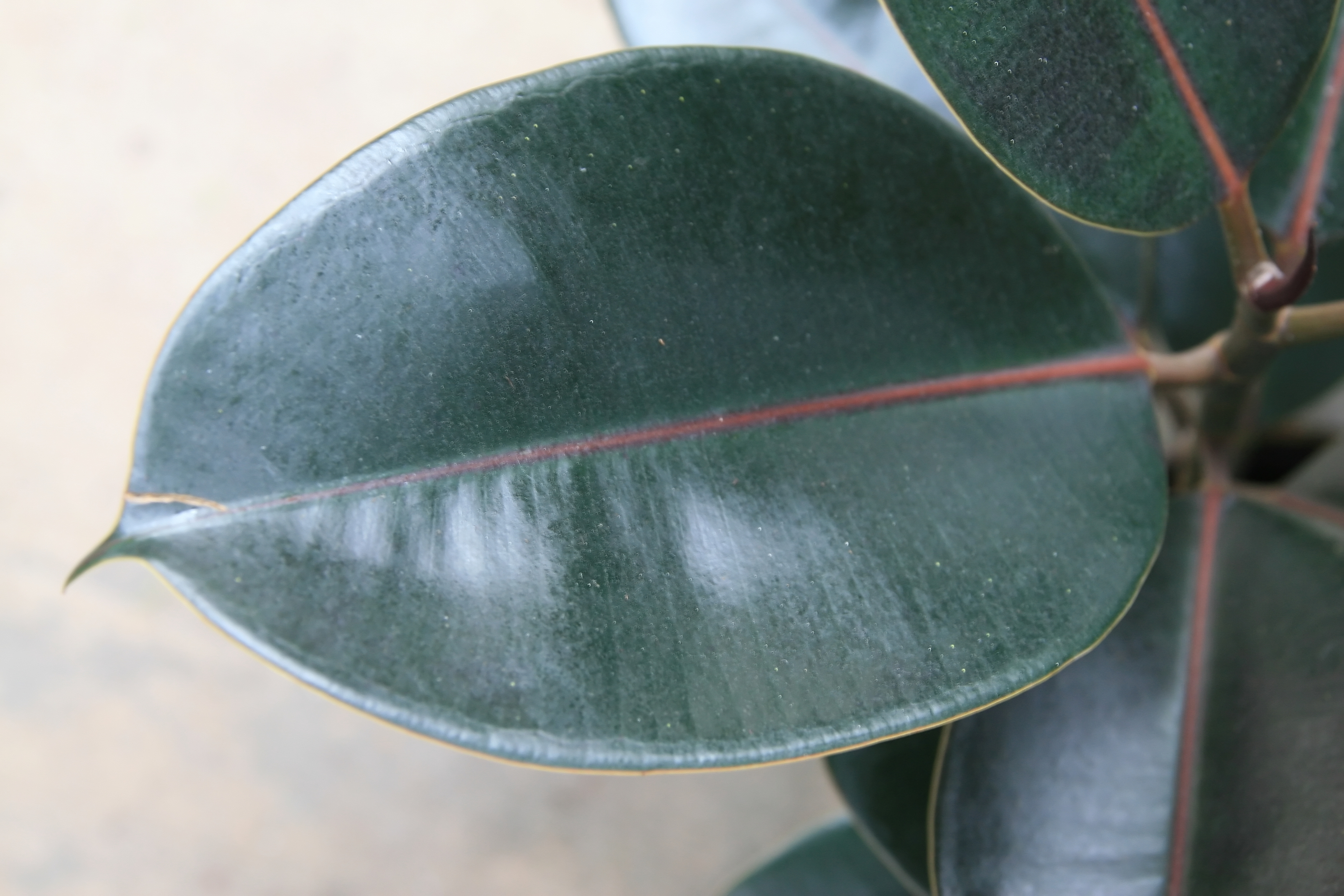 Location taken: Behnke Nurseries, Beltsville, MD USA. Names: Ficus elastica Roxb., árbol Del Caucho, Arbre á Caoutchouc, Arbre à caoutchouc, Árvore da borracha, Assam rubber, Athabor, Atta Bor, Attah, Bor, Caoutchouc, Cimaiyal, Ficus de cautxú, Figowiec sprężysty, Figueira-Indiana, Fikus, Fönsterfikus, Ganoi, Gomero, Gumijevac, Gummi Figen, Gummibaum, Gummifigen, Gummifikentre, Gumovec, Higuera Cauchera, Higuera De La India (Cuba), India Rubber Fig, India Rubber Plant, India rubber tree, Indian Rubber Fig, Indian Rubber Tree, Indian Rubberplant, Indian Rubbertree, Indische rubberboom, Kanoi, Kauçuk ağacı, Kumiviikuna, Nyaung Kyetpaung, Ornamental Rubber Tree, Palo de goma, Planta Del Caucho, Rabra Chovad, Rubber Bush, Rubber Plant, Rubber Tree, Rubberplant, Rubberplant;rubberboom, Seringueira, Seringueira-De-Jardim, Snake tree, Stambialapis fikusas, Vat, Yin De Rong, Yin Du Rong, Árvore-da-bo